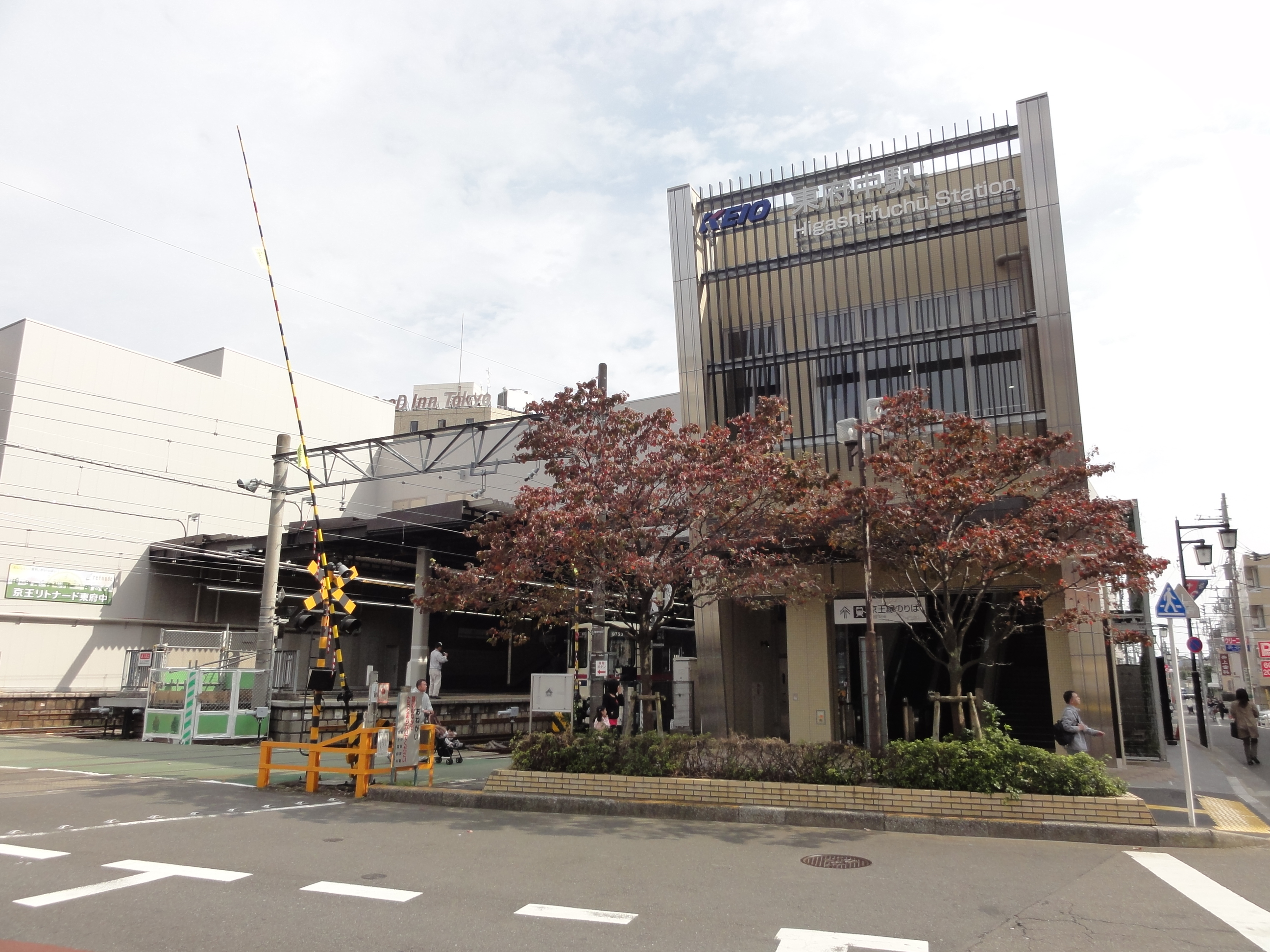 South exit of Higashi-Fuchu Station in Tokyo